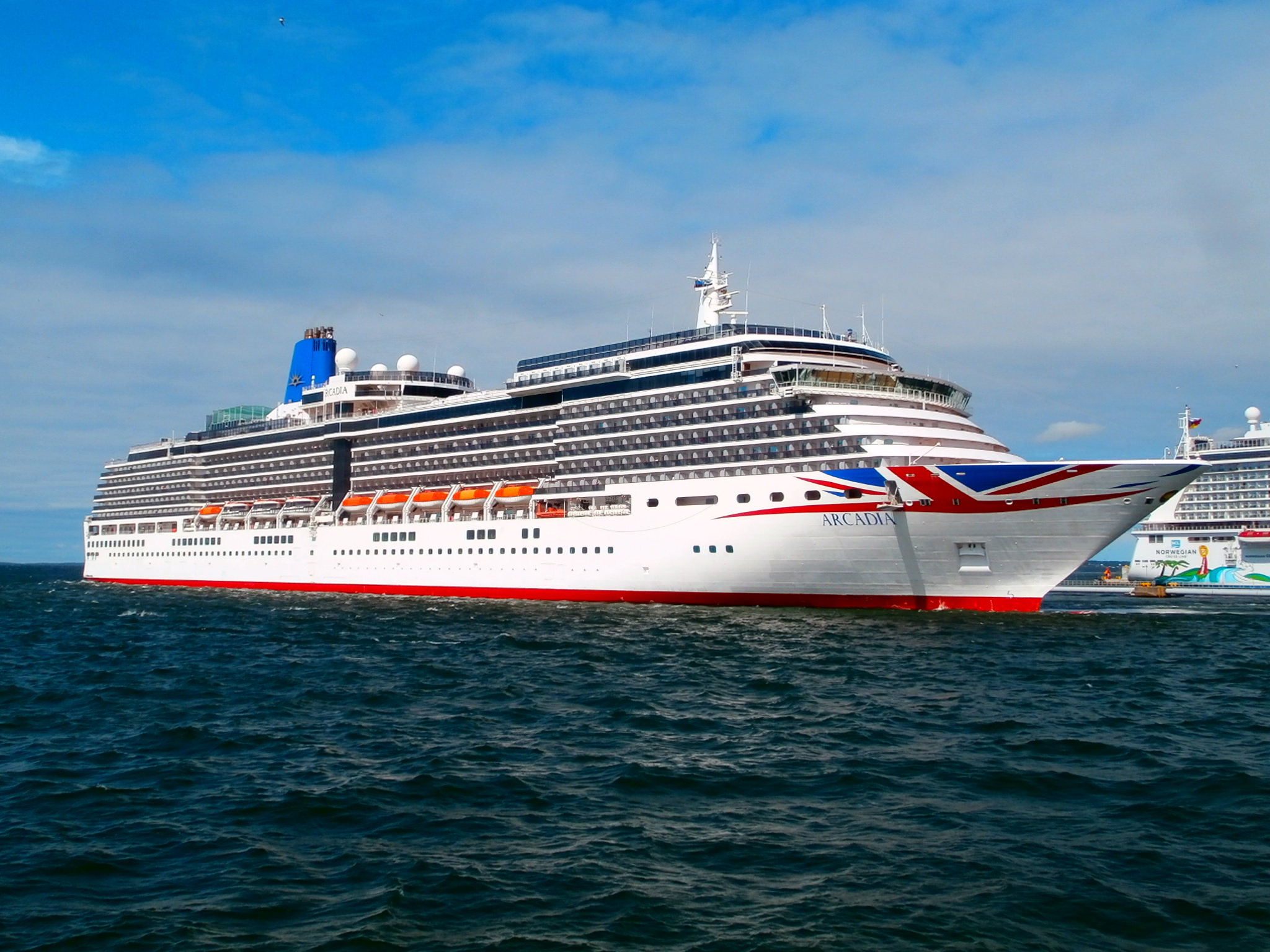 Arcadia departing Tallinn, Port of Tallinn 27 June 2017 (Norwegian Getaway at pier 26 in the background)